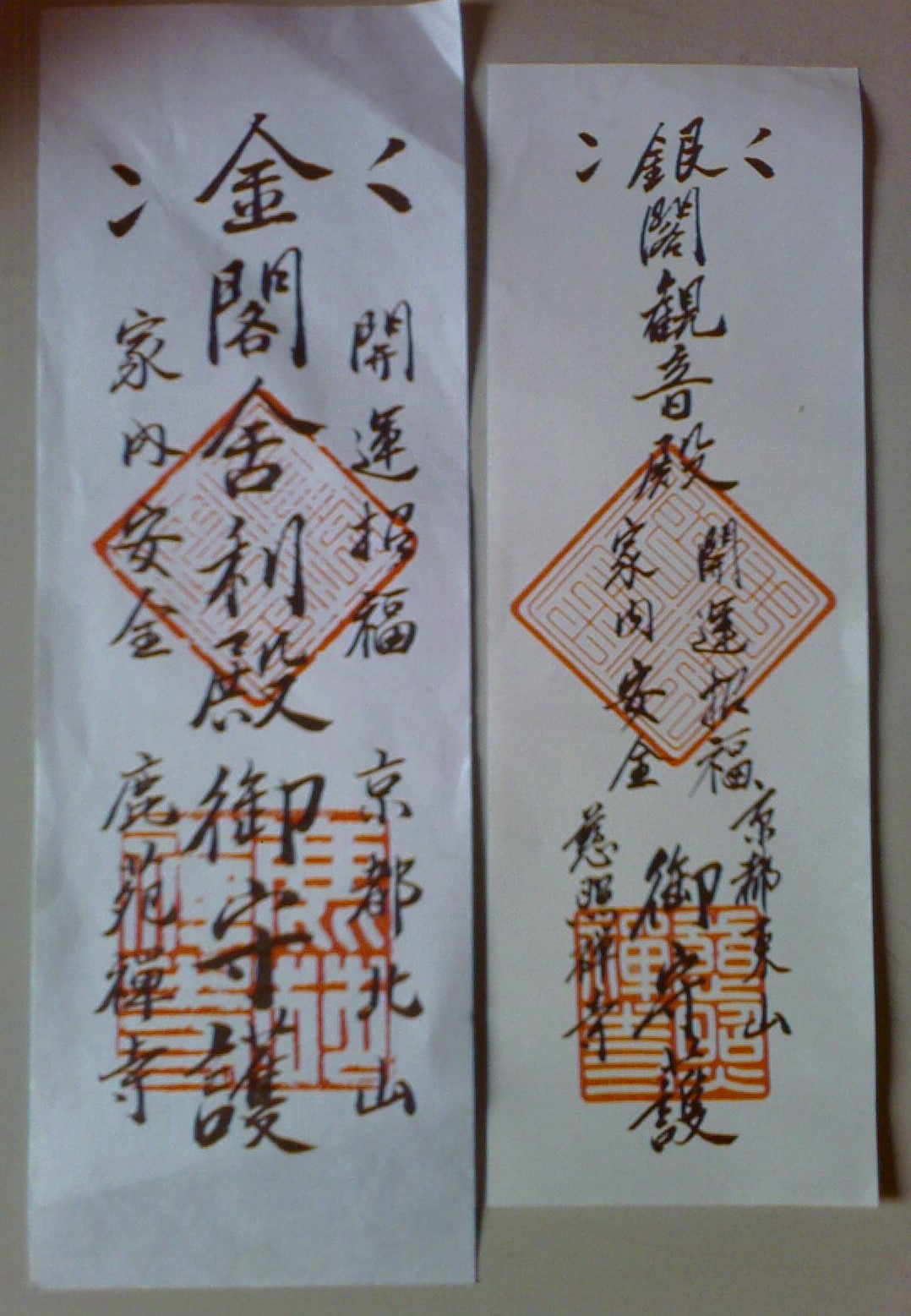 Omamori (Japanese Amulet)